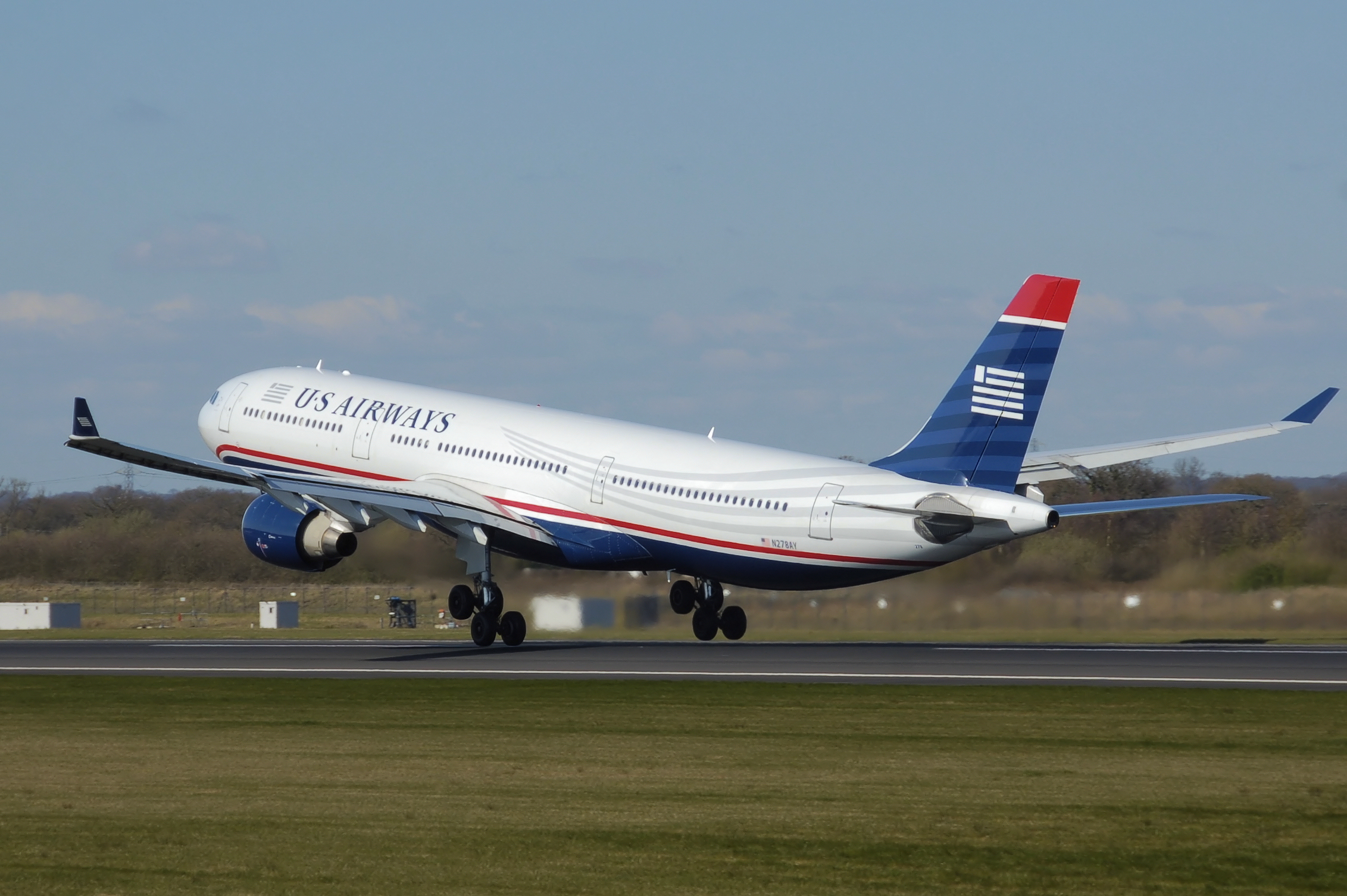 US Airways Airbus A330-300 (N278AY) takes off from Manchester Airport, England.